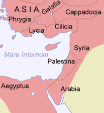 Adapted from File:Roman Empire Map.png, originally from Wikimedia Commons. Found here.